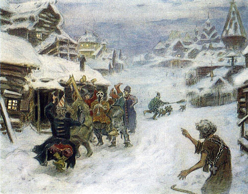 Skomorokhs. 1904.